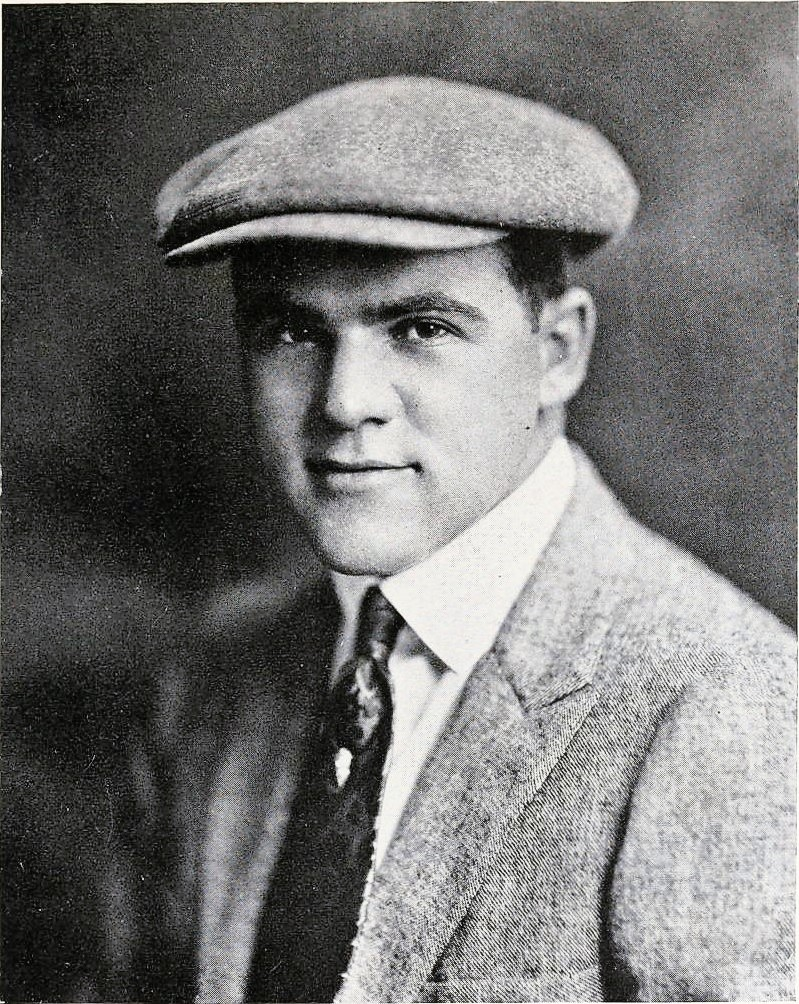 Hal Roach (1892-1992), American film producer, director, and actor